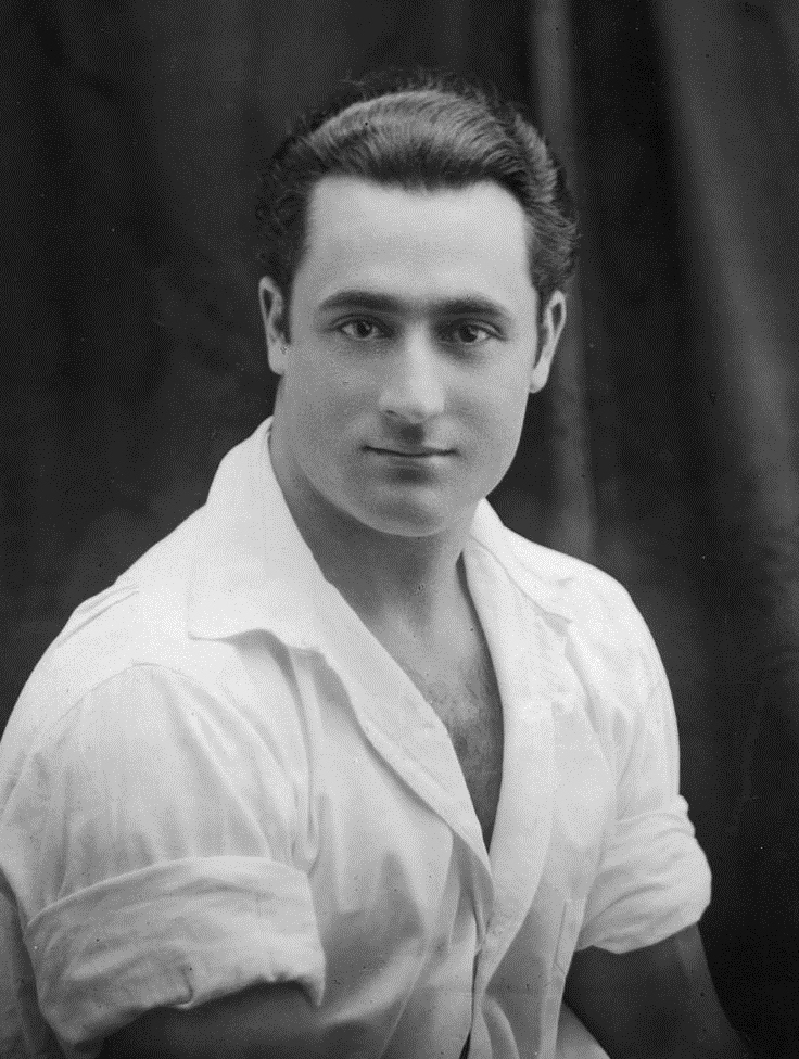 American bodybuilder and businessman Charles Atlas (1892 - 1972), circa 1920.